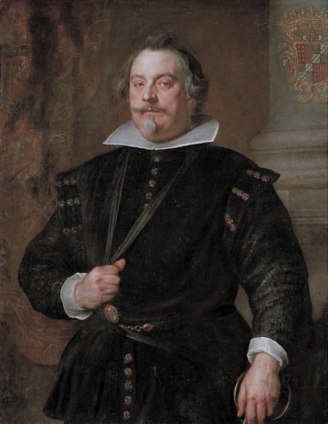 Francisco de Moncada, Marqués de Aytona oil on canvas 115,5 x 86 cm signed c.r.: A. VAN DYCK circa 1633-1634